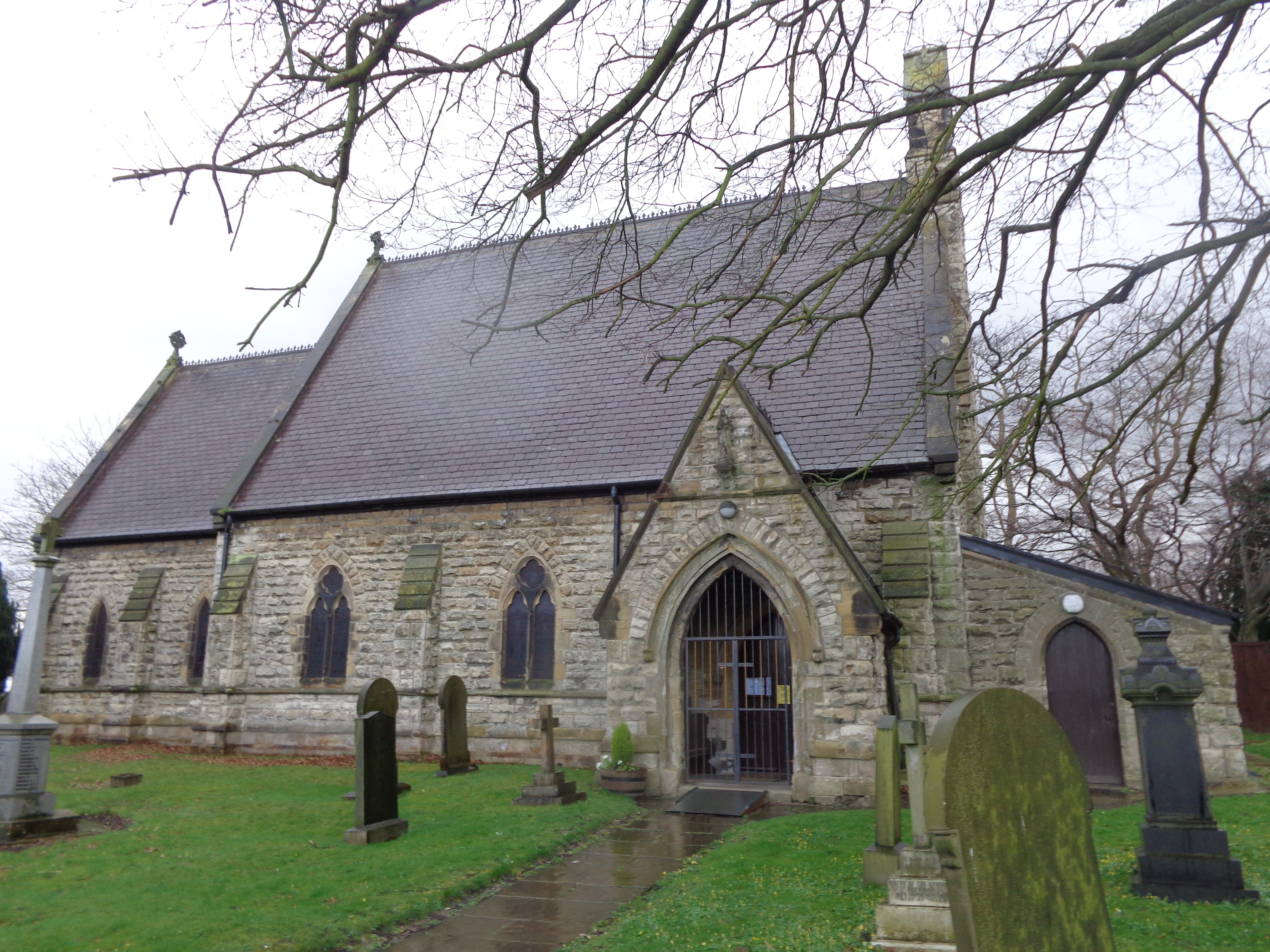 St. Mary the Virgin Church, Micklefield, Leeds, West Yorkshire. Taken on the afternoon of Saturday the 22nd of March 2014.